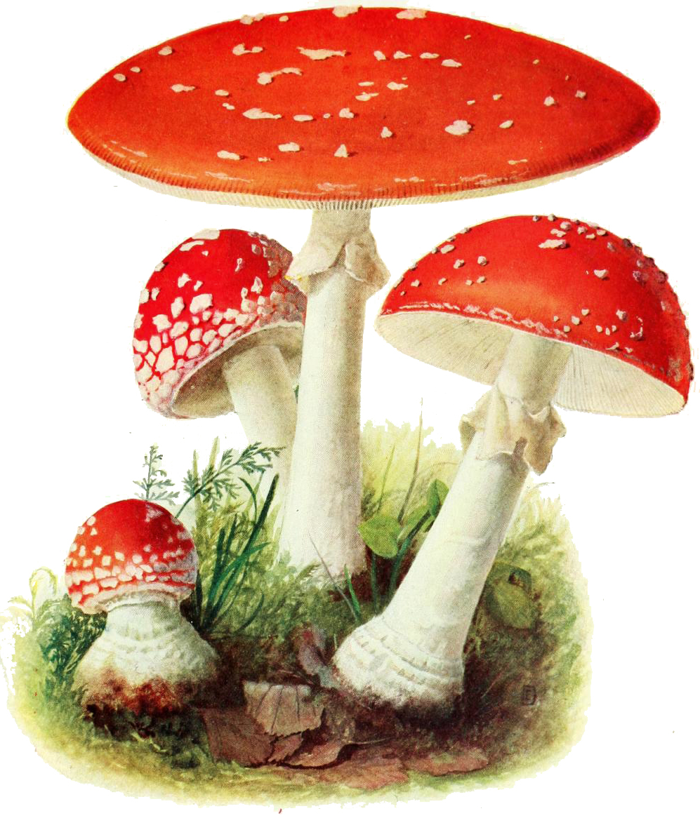 Amanita muscaria.